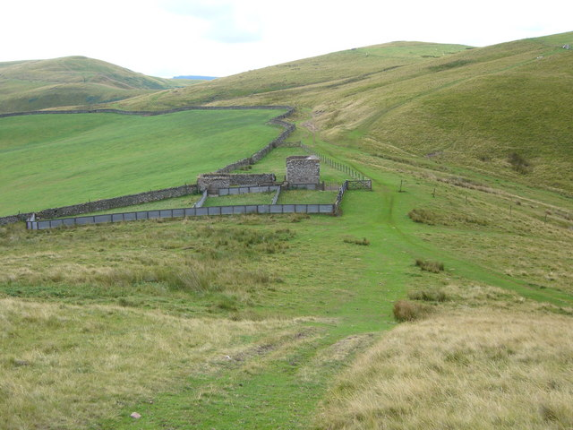 Dere Street. Comes up from the right to the building and goes off around wall to left background.